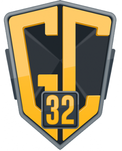 GC32 International Class Association logo